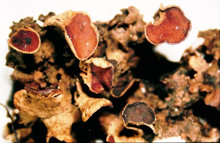 Nephroma bellum (Spreng.) Tuck., 1841 (photograph of a herbarium specimen showing apothecia) Growing on moss over moist rocks in deciduous woods along Lamkin Drive, 0.3 mile N of Middle Village Church, Emmet County, Michigan, USA; collected and identified by Richard E. Riefner (No. 81-650, 7 Aug 1981); specimen is now in the Lichen Herbarium of the New York Botanical Garden.